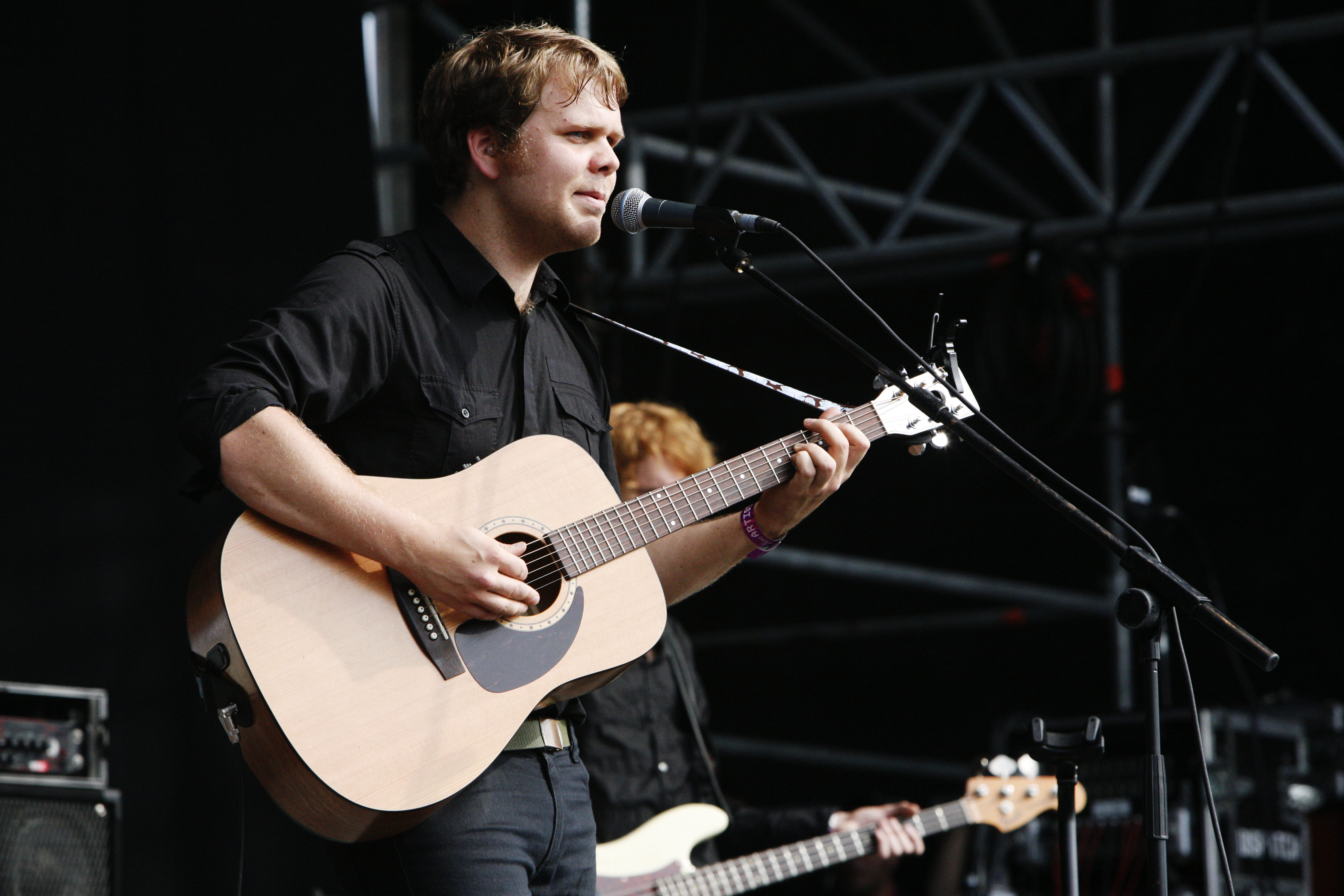 Loney, Dear at the Eurockéennes of 2007